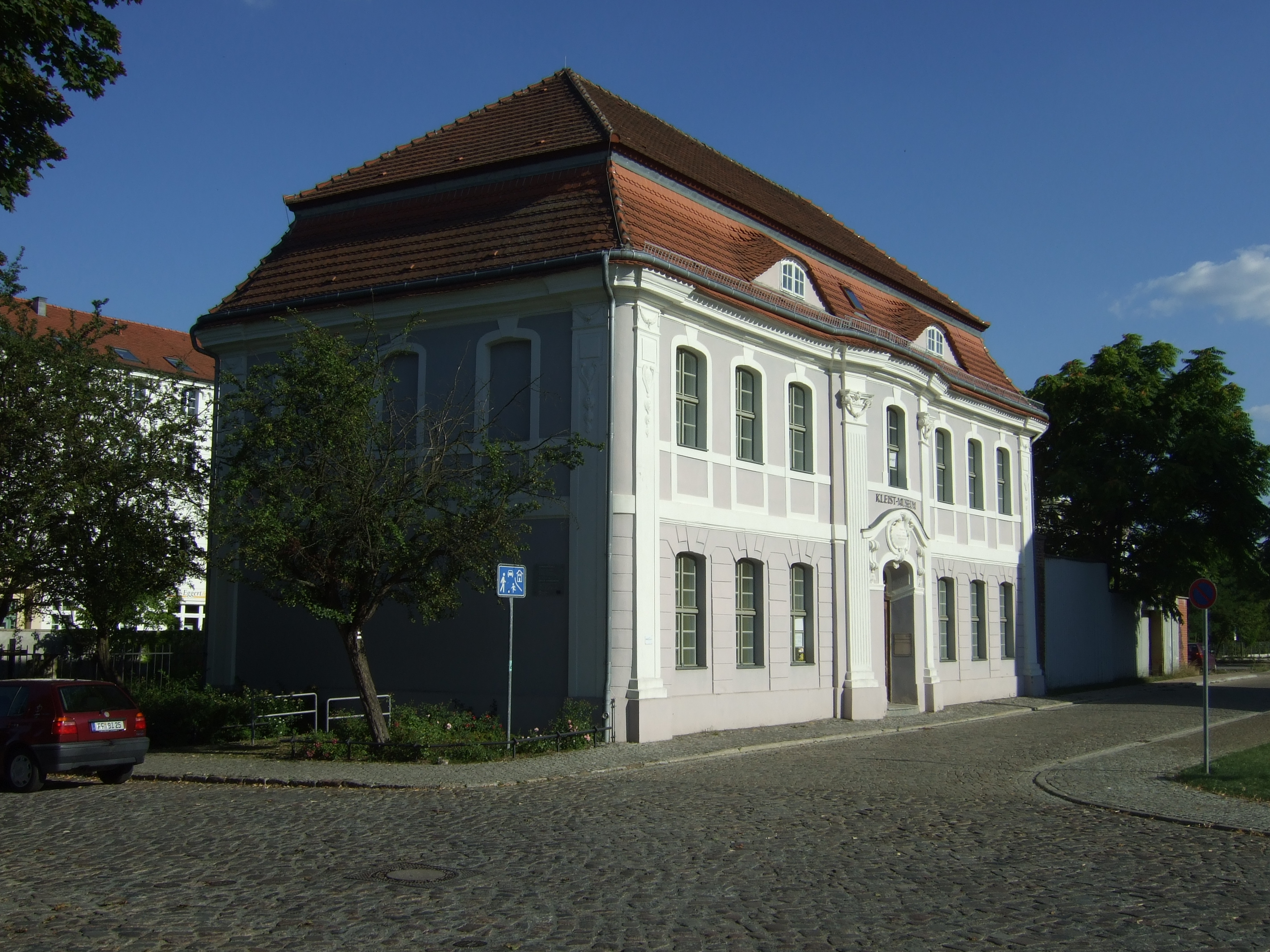 Garrison school (today Kleist Memorial and Research Centre) in Frankfurt (Oder), Germany.